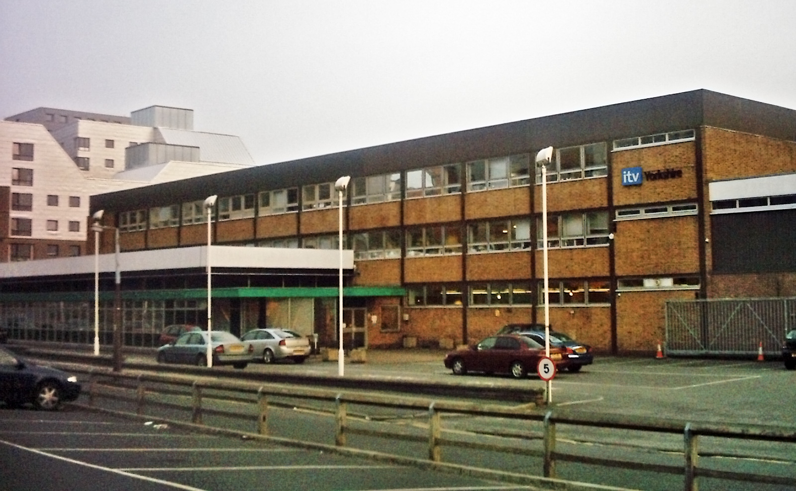 The rear of the Yorkshire Television, Leeds Studios from Burley Road, Burley, Leeds, West Yorkshire, UK. Taken on the 15th April 2009.